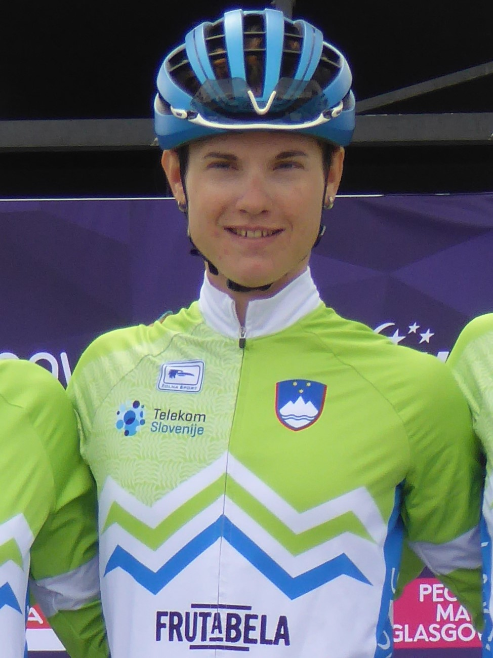 Špela Kern (Slovenia), prior to the women's road race at the 2018 UEC European Road Cycling Championships in Glasgow.